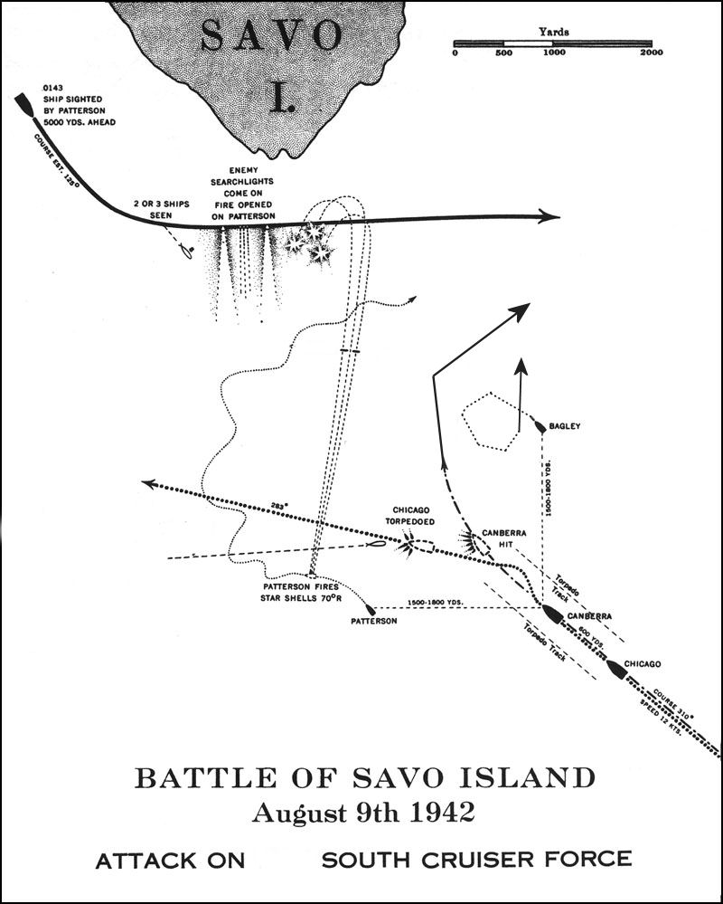 U.S. Navy map from 1943 of engagement between Japanese ships and southern force of Allied ships in battle on August 8-9, 1942. Public domain image modified by cla68 on August 31 to show warship tracks based evidence in the book Shame of Savo, by Bruce Loxton.